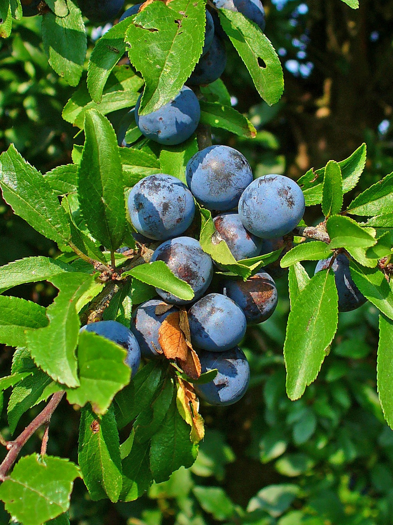 Prunus spinosa, Rosaceae, Blackthorn, Sloe, fruits.